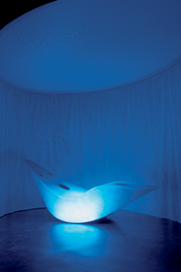 AlphaSphere: an AlphaLounger inside an AlphaRoom